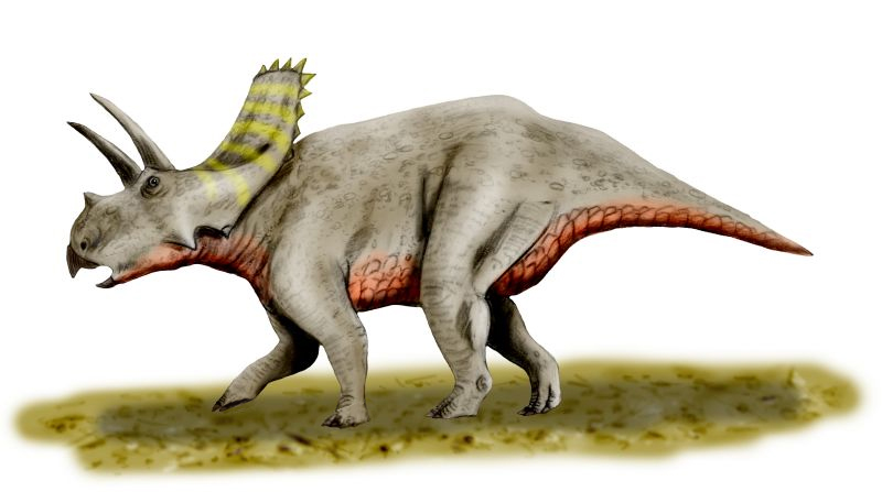 Arrhinoceratops brachyops, a ceratopsian from the Late Cretaceous of Alberta, pencil drawing, digital coloring